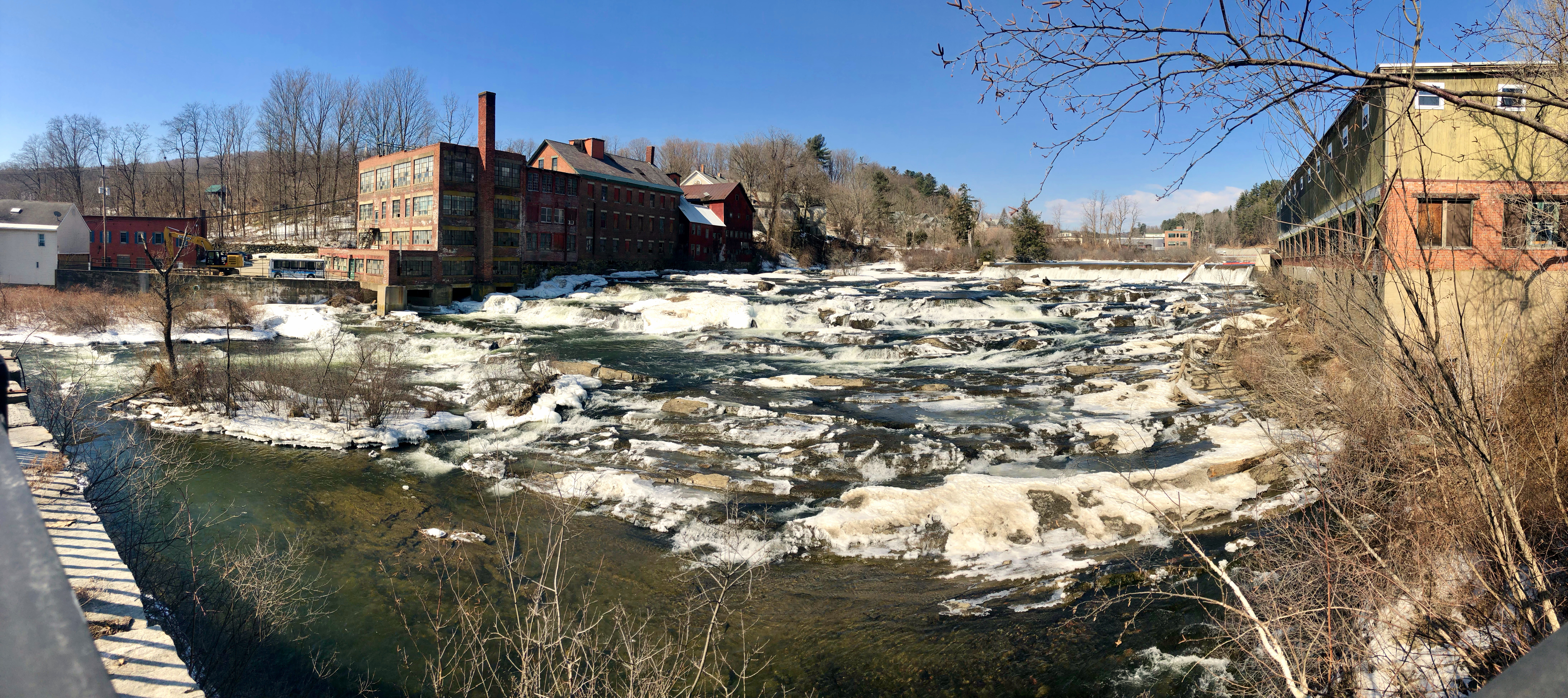 Comtu or Black River Falls, in downtown Springfield, VT, are very wide, more like a series of rapids. Here they are partly frozen at the end of the winter.